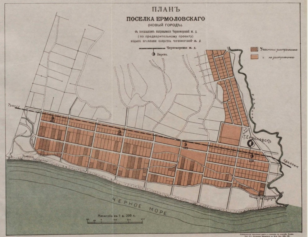 Plan of Ermolovsk resort from the illustrated album The Black Sea Railway (Tuapse-Kvaloni) under construction. - St. Petersburg: Pravl. Chernomor Island. F. Etc., 1913. - 116 p., 14 liters. Maps. 24 - p.38